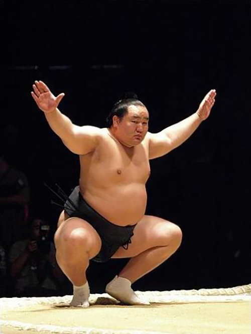 Asashoryu before the beginning of a match. He does a ritual gesture chirichōzu (塵手水) to indicate that a fight will be clean.